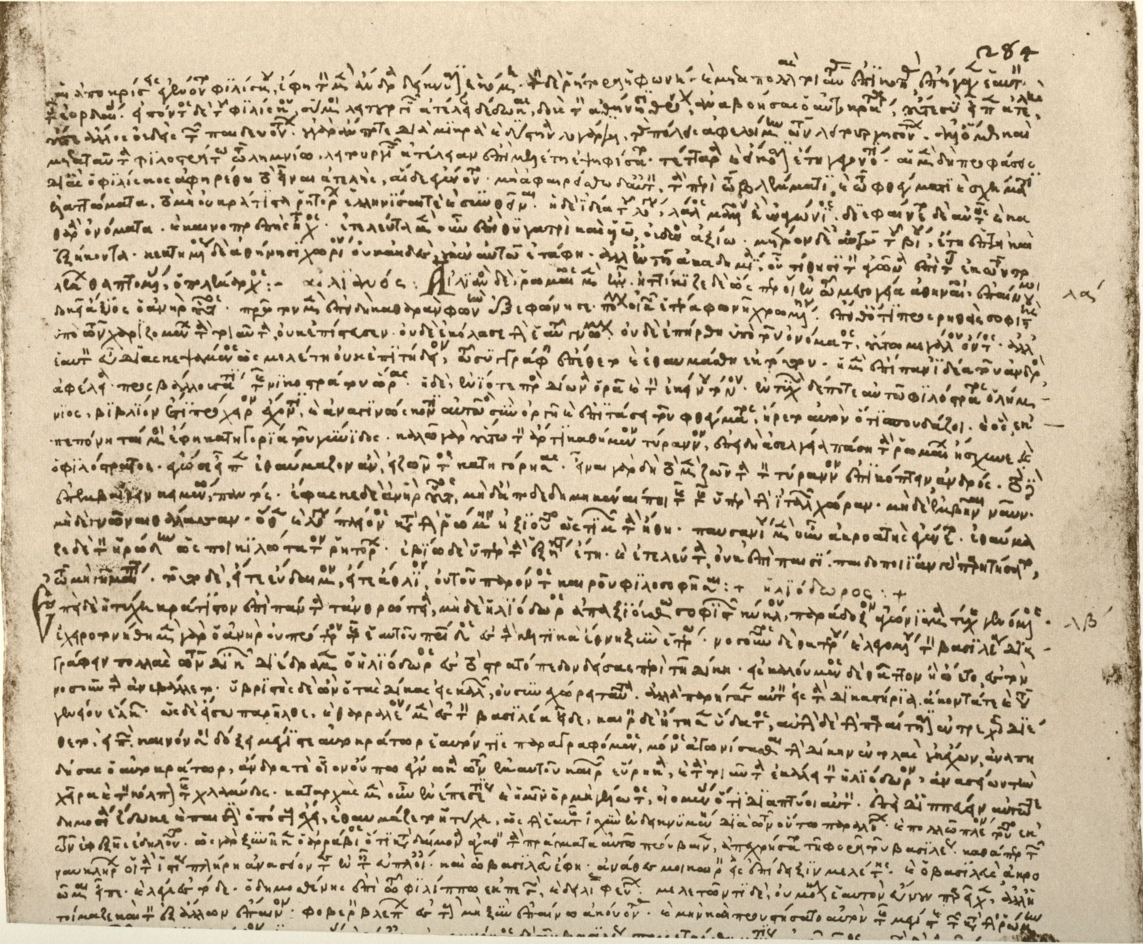 Philostratus, Lives of the Sophists, in ms. Biblioteca Apostolica Vaticana, Vaticanus graecus 64, fol. 284r.